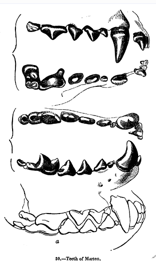 Teeth of a beech marten